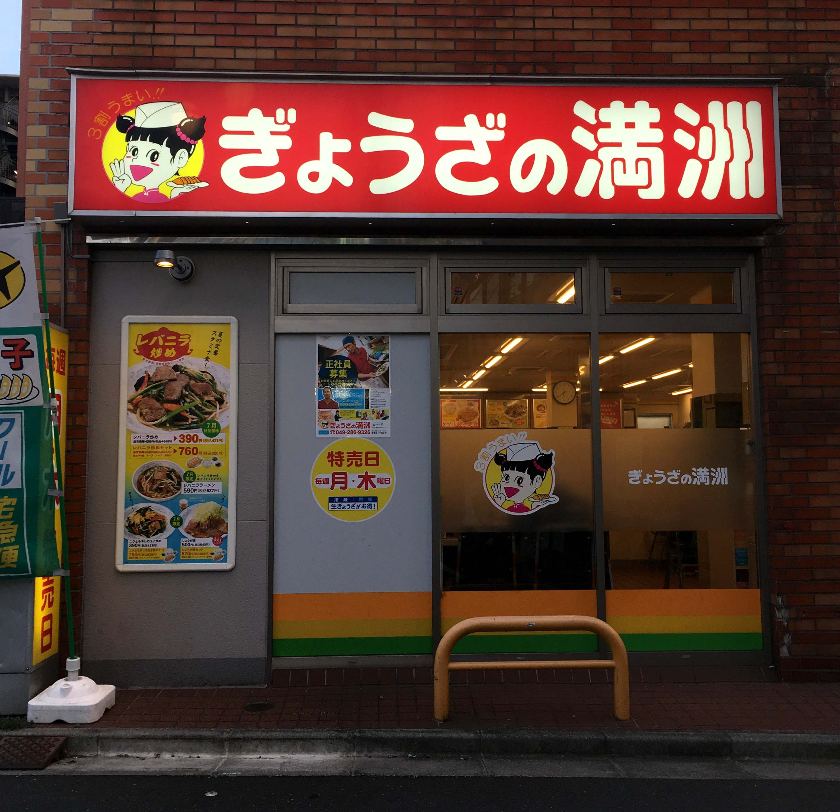 Gyoza-no-Manshu (Japanese jiaozi restaurant) Nerima-Fujimidai branch (Tokyo, Japan)